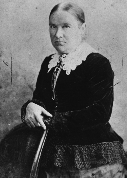 "This undated photo shows Helene Demuth, the housekeeper of Jenny and Karl Marx. Marx and her had a love affair, she became pregnant and had a son, Frederick."